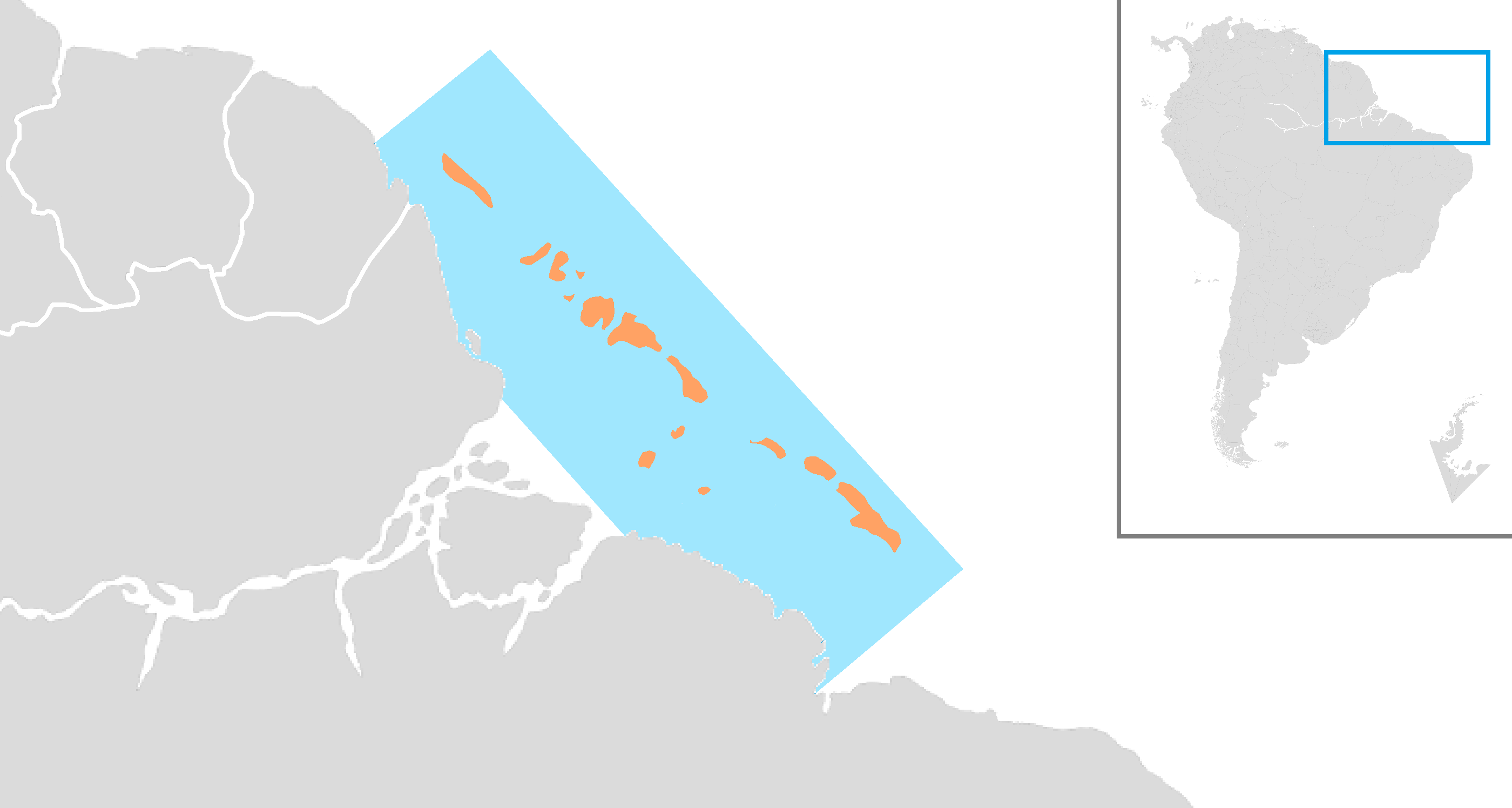 A rough map of the Amazon Reef, a coral + sponge reef, recently discovered off the coast of the northern South American coast, in April 2016. The map is based on a map of the reef, published in Science Advances.